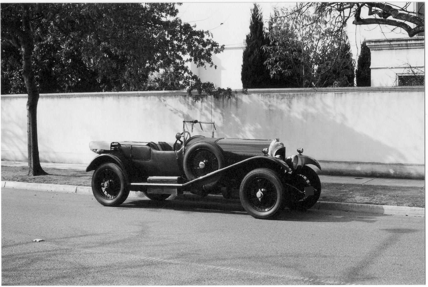 bentley 3 litre speed model